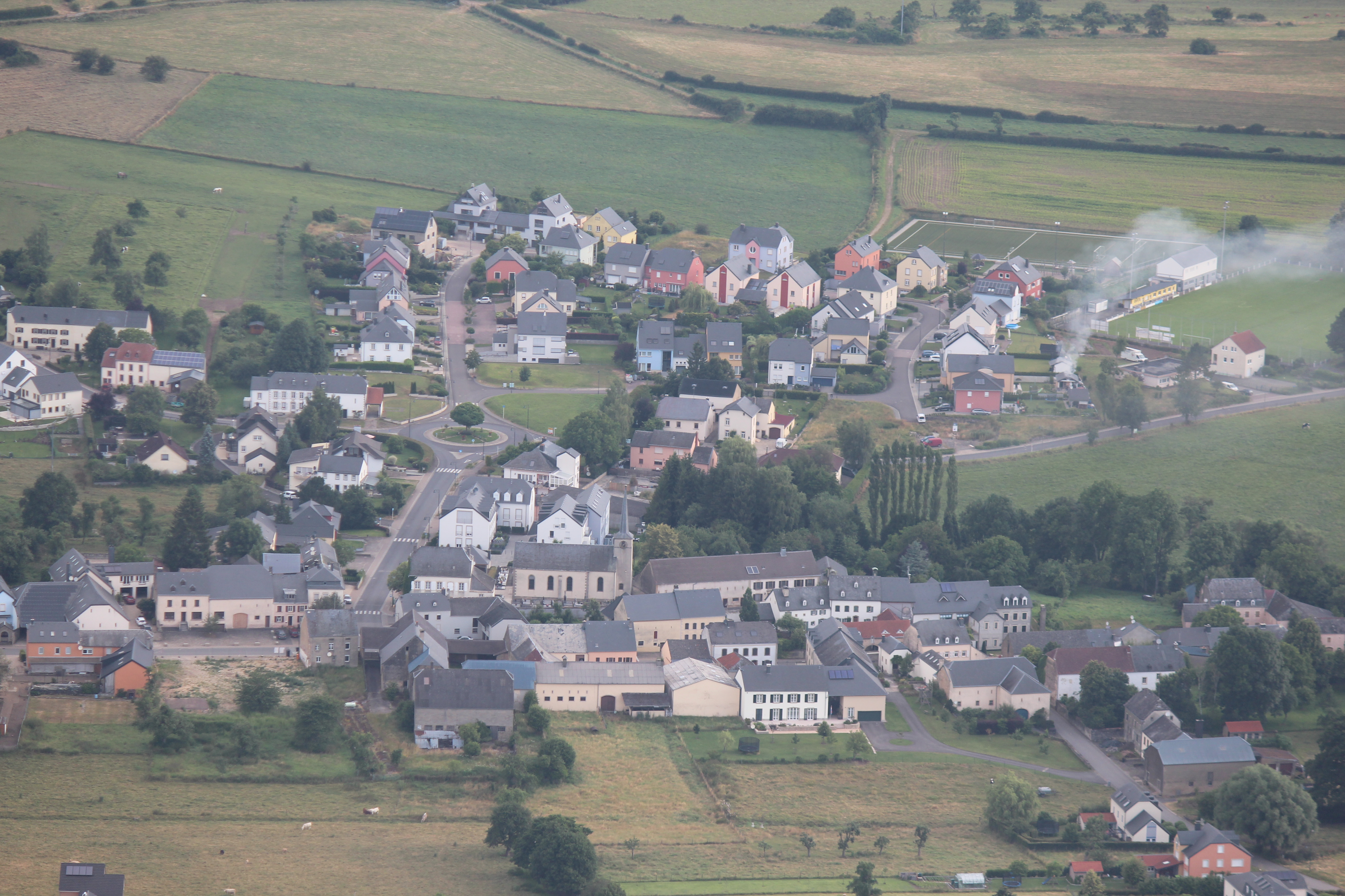 Christnach (lb.: Chrëschtnech)